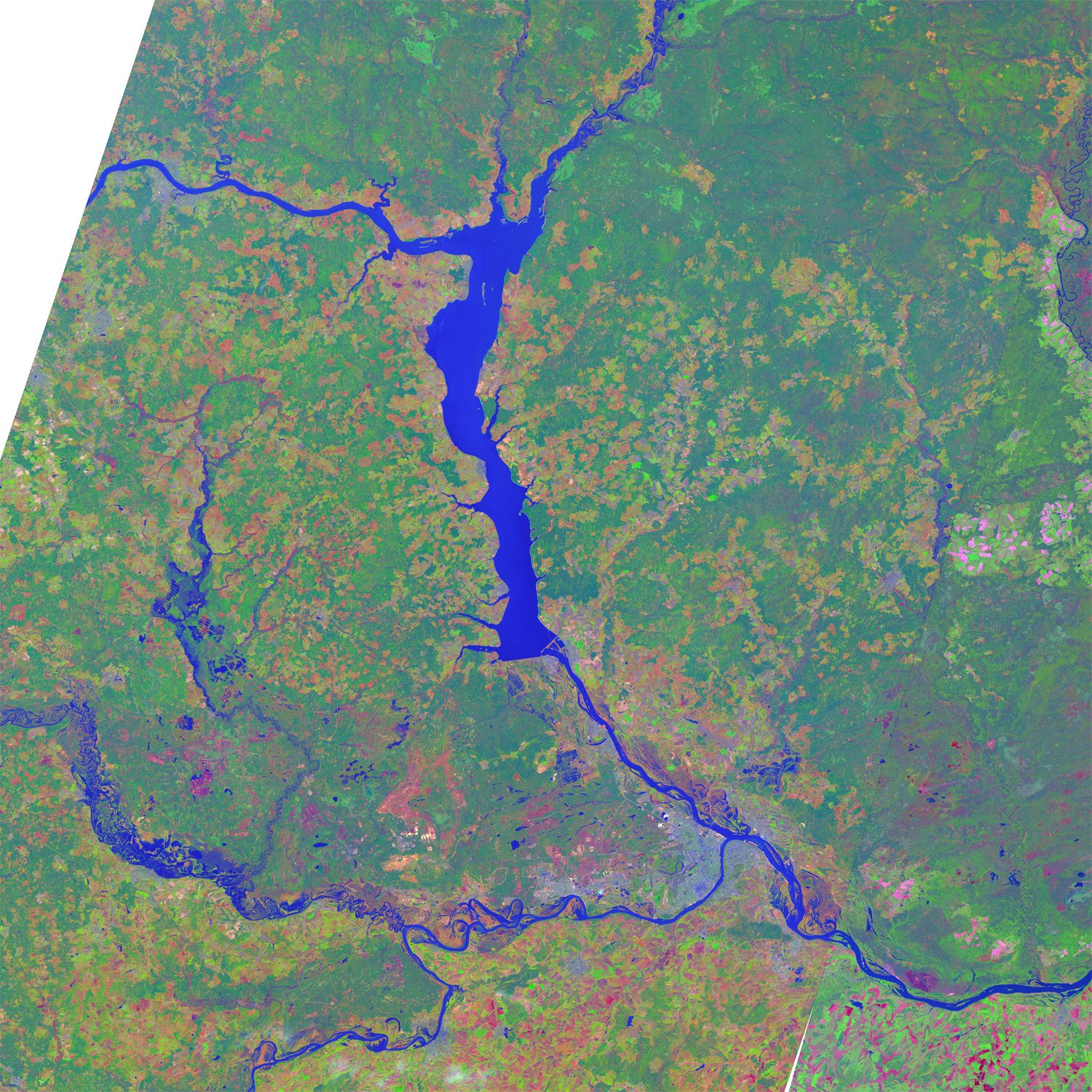 Landsat 7 image of Puchezh-Katunki is a meteor crater in the Chkalovsky District of Nizhny Novgorod Oblast in Russia